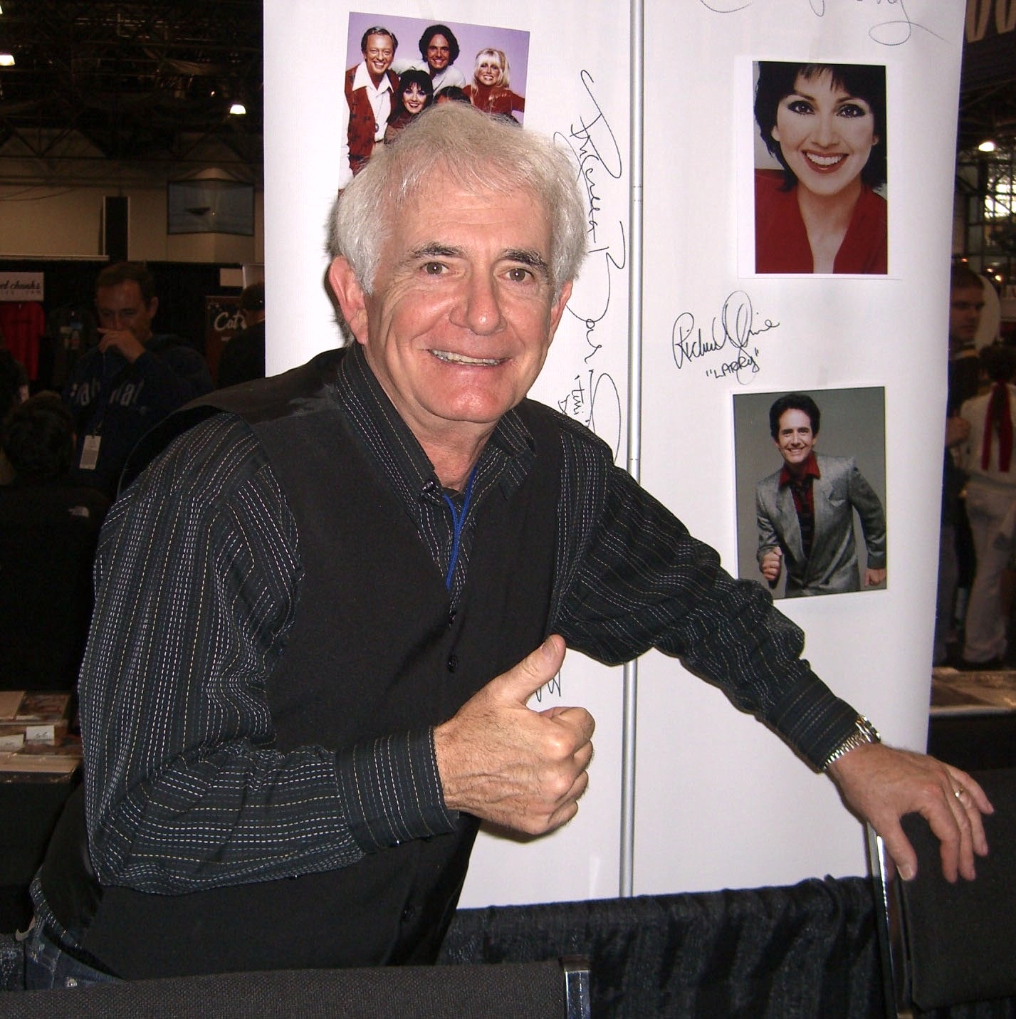 Actor Richard Kline at the New York Comic Convention in Manhattan, October 10, 2010. Photo by Luigi Novi. This photo may be used, modified and published for any purpose, only if the photographer is visibly credited in each instance in which it is used. (See licensing information below.) Publication of this photo without proper attribution constitute copyright infringement. For more information on my photos, you can contact me here.